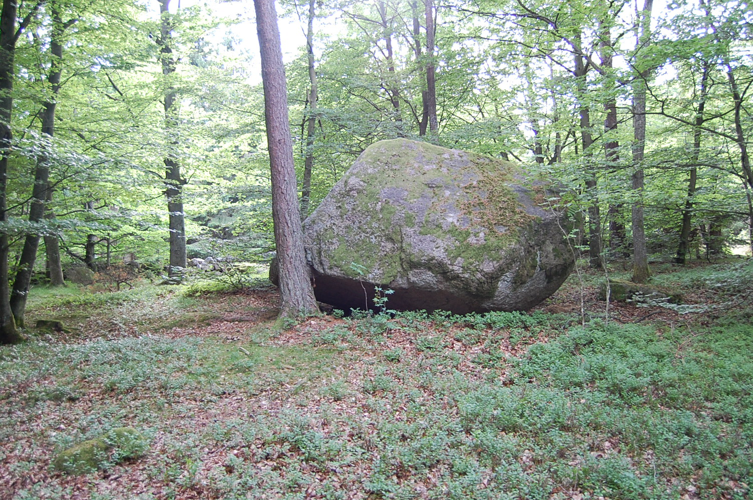 A stone moved here during the ice-age. This stone is named "the move-abel stone" because you are abel to make it move with only hand power